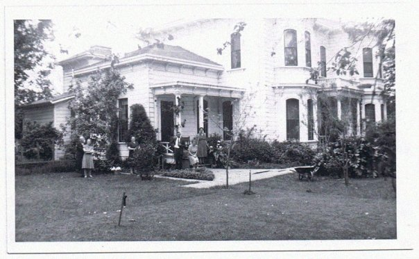 The Griffith Mansion in Yolo / Cacheville CA, built 1886. Now owned by the Tornincasa family. Earliest known photograph.